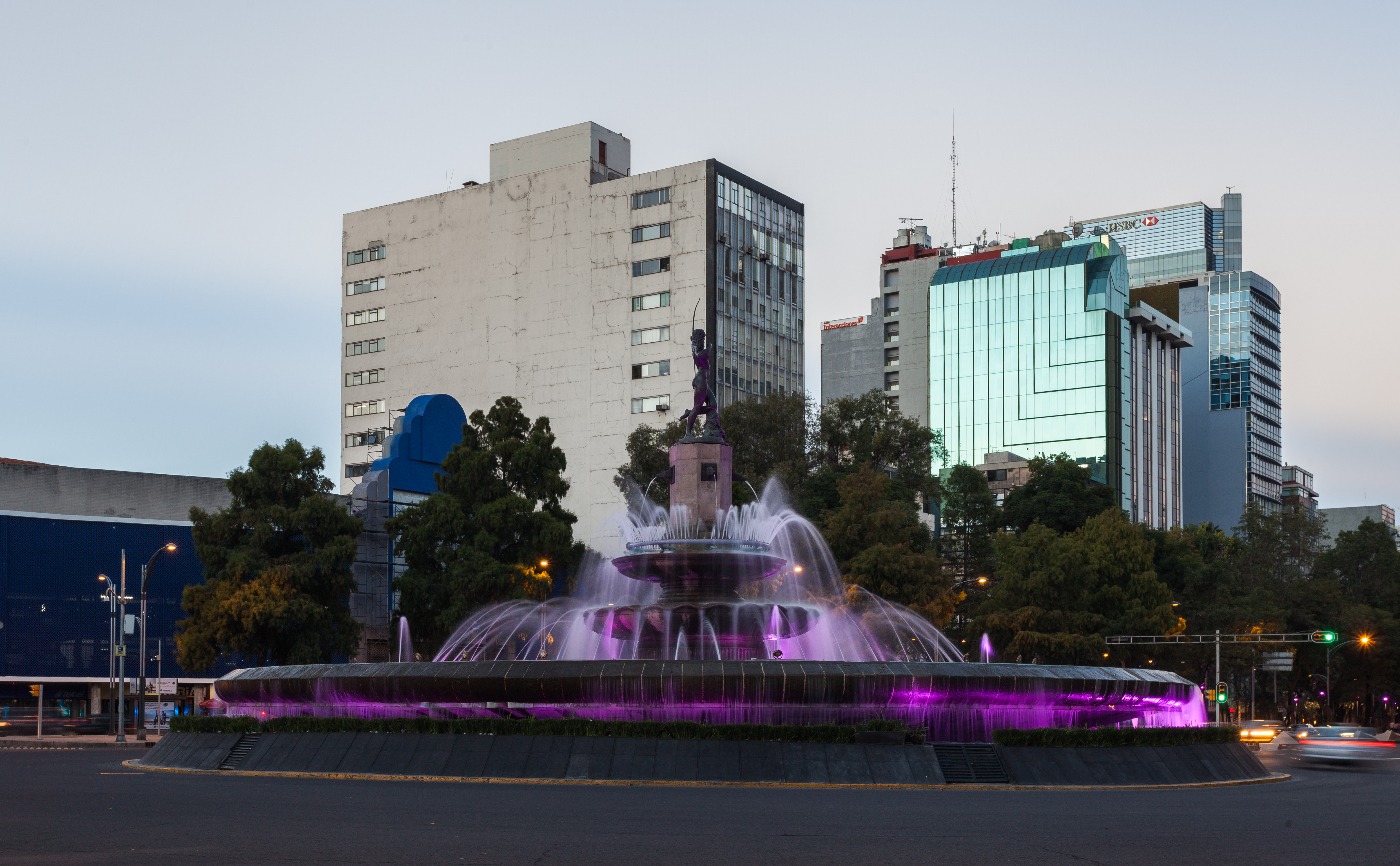 Fuente de la Diana Cazadora, Mexico City, Mexico